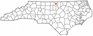 Category:North Carolina Dot Maps